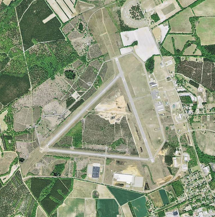 USGS digital orthophoto of Barnwell Regional Airport, South Carolina